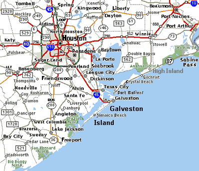 Map of Houston-Galveston area of Texas in the United States, showing: coastal towns: Freeport, Jamaica Beach, Galveston, Texas City, Baytown, Port Bolivar, Crystal Beach, Gilchrist, High Island and Sabine Pass. wildlife areas: Big Boggy N.W.R., San Bernard N.W.R., Brazoria N.W.S., Anahuac N.W.R. and Sea Rim State Park.